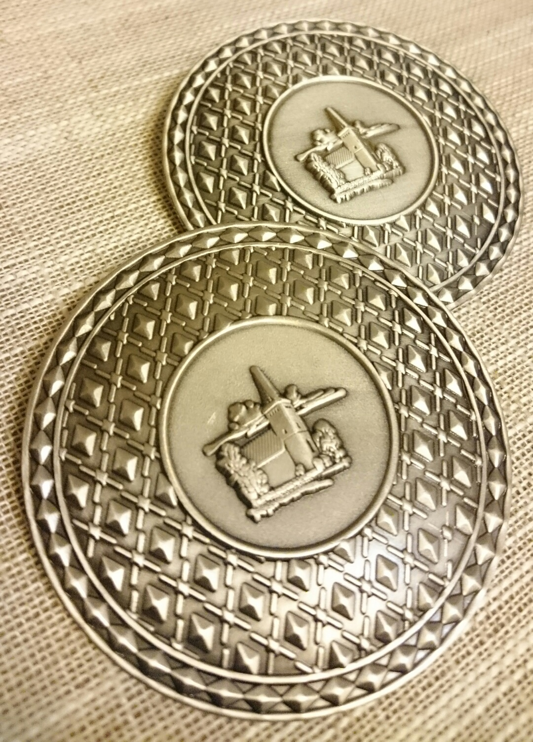 Märjamaa sõled